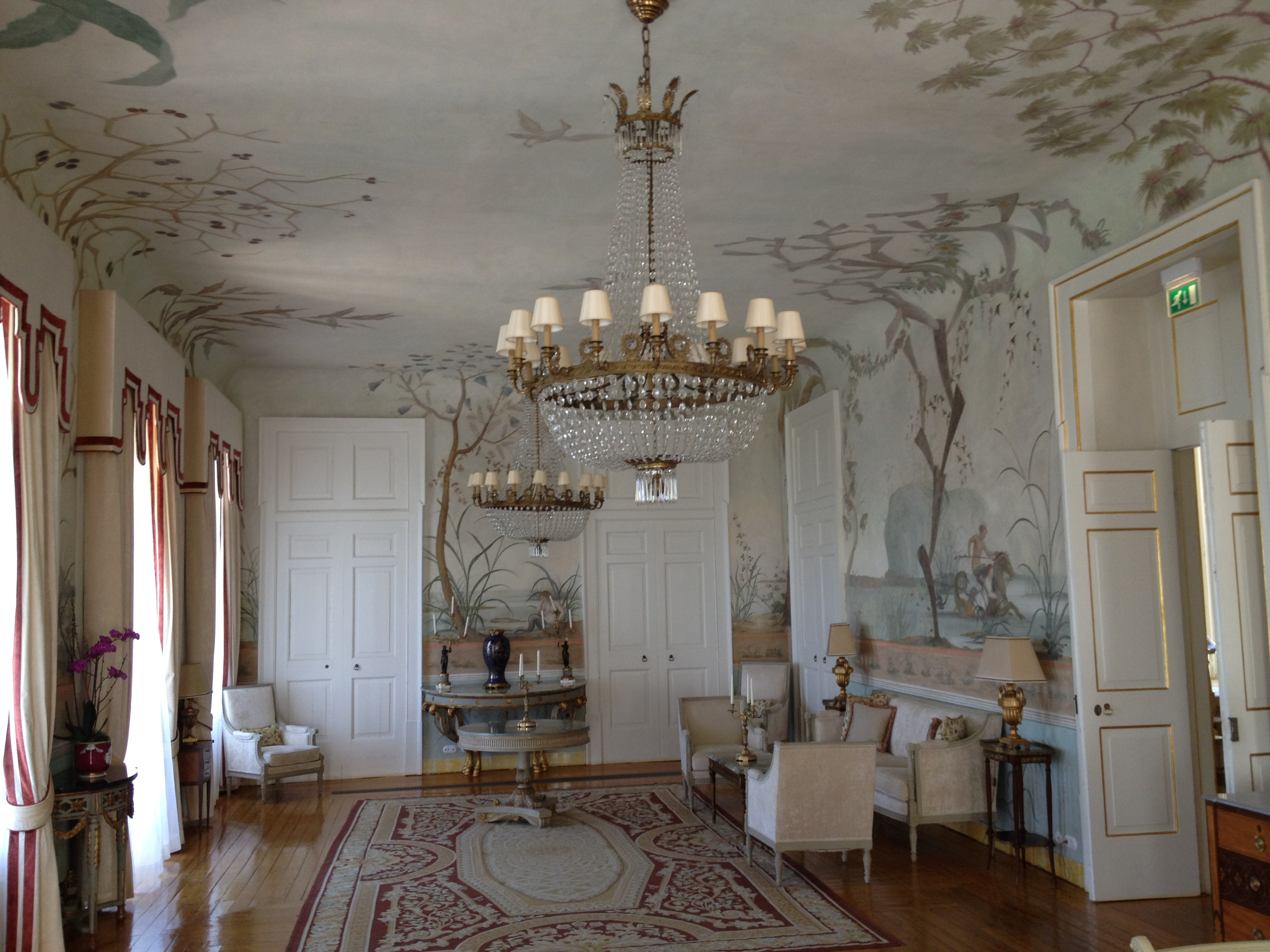 Palácio de Seteais in Sintra